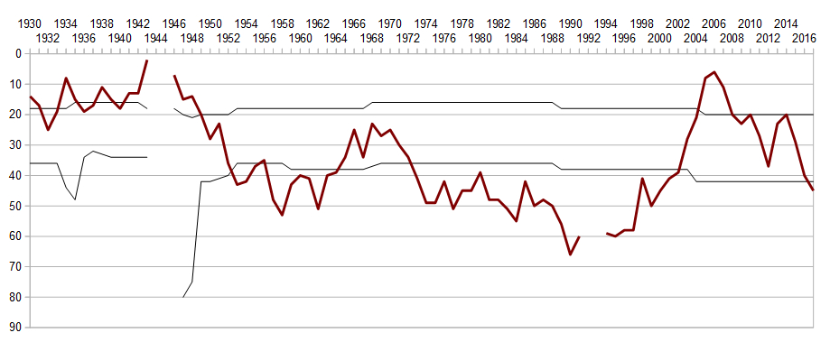 Graph showing of the progress of Livorno in the Italian football league structure since the first season of a united Serie A (1929/30). Only four upper tiers, hence the hole in the early 1990's. Note that the graph shows the position in the standings and not the place in the total league hierarchy, since Serie C (C1/C2) and Lega Pro have had up to four regional sections. The data is from the Italian Wikipedia.